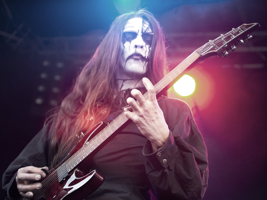 Seregor, lead vocalist/guitarist for Carach Angren, performing at Kabaal am Gemaal on 5 May 2010. Photographed with a Canon EOS 5D.